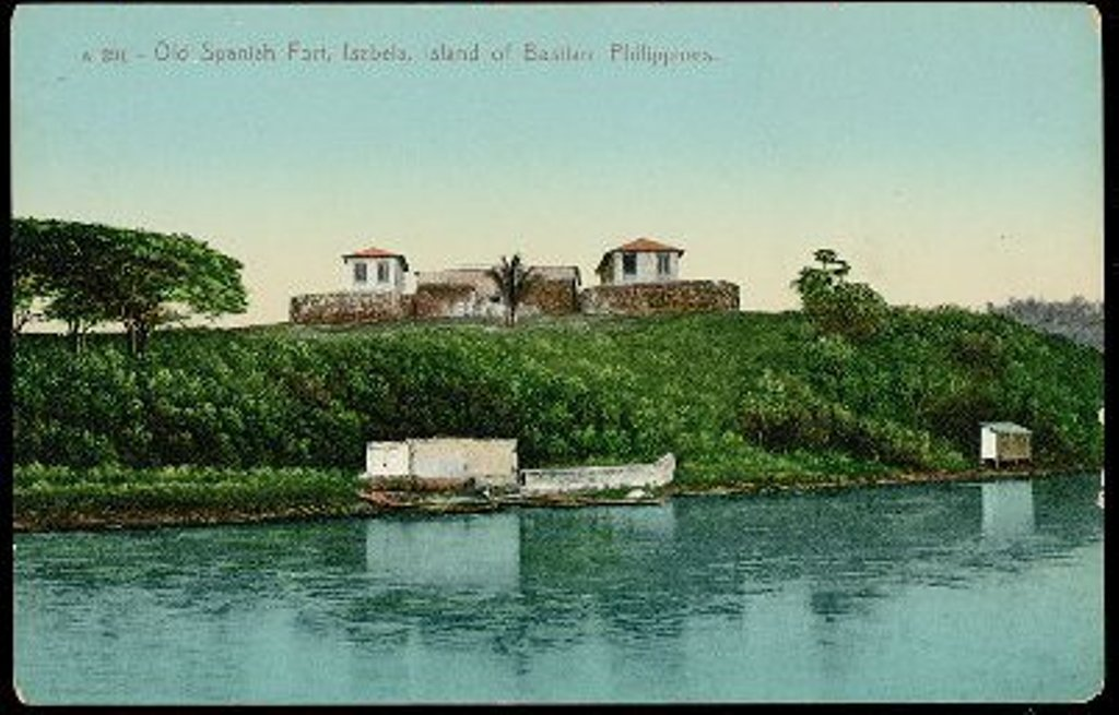 Illustration of Fort Isabella II, Basilan Island, Philippines, 1901.